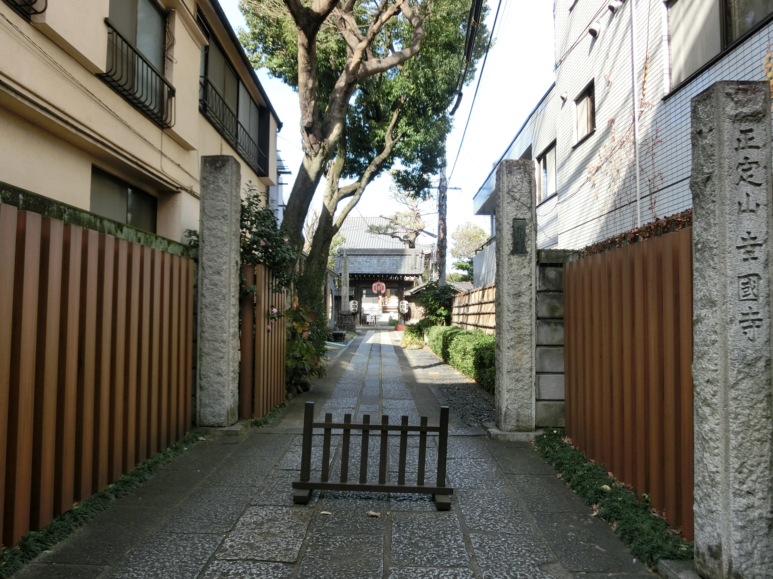 Kokoku-ji (Shinjuku)